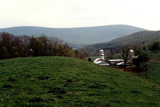 Martin Hill Photo by: Joe Calzarette